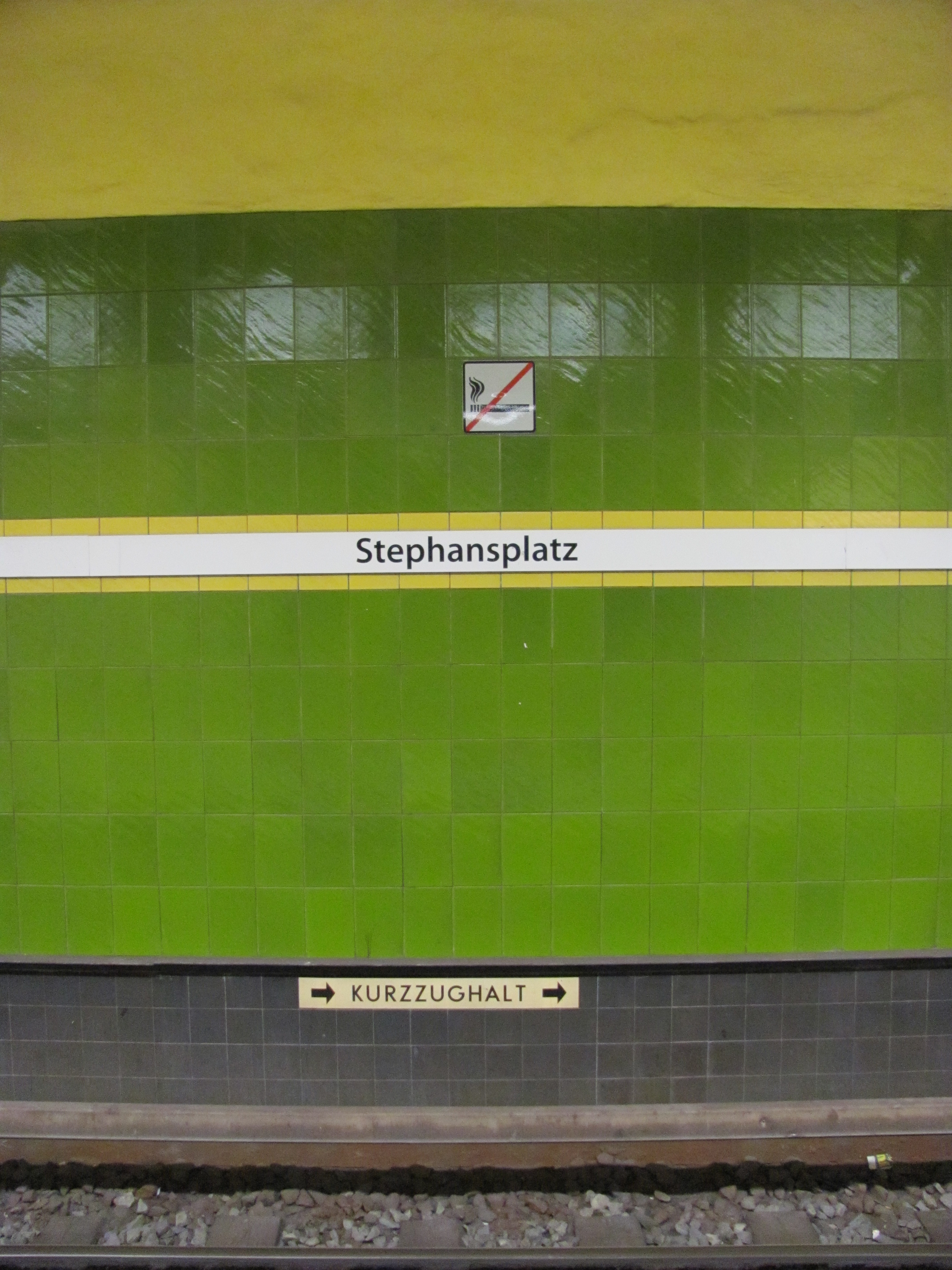 U-Bahn station Stephansplatz in Hamburg, Germany